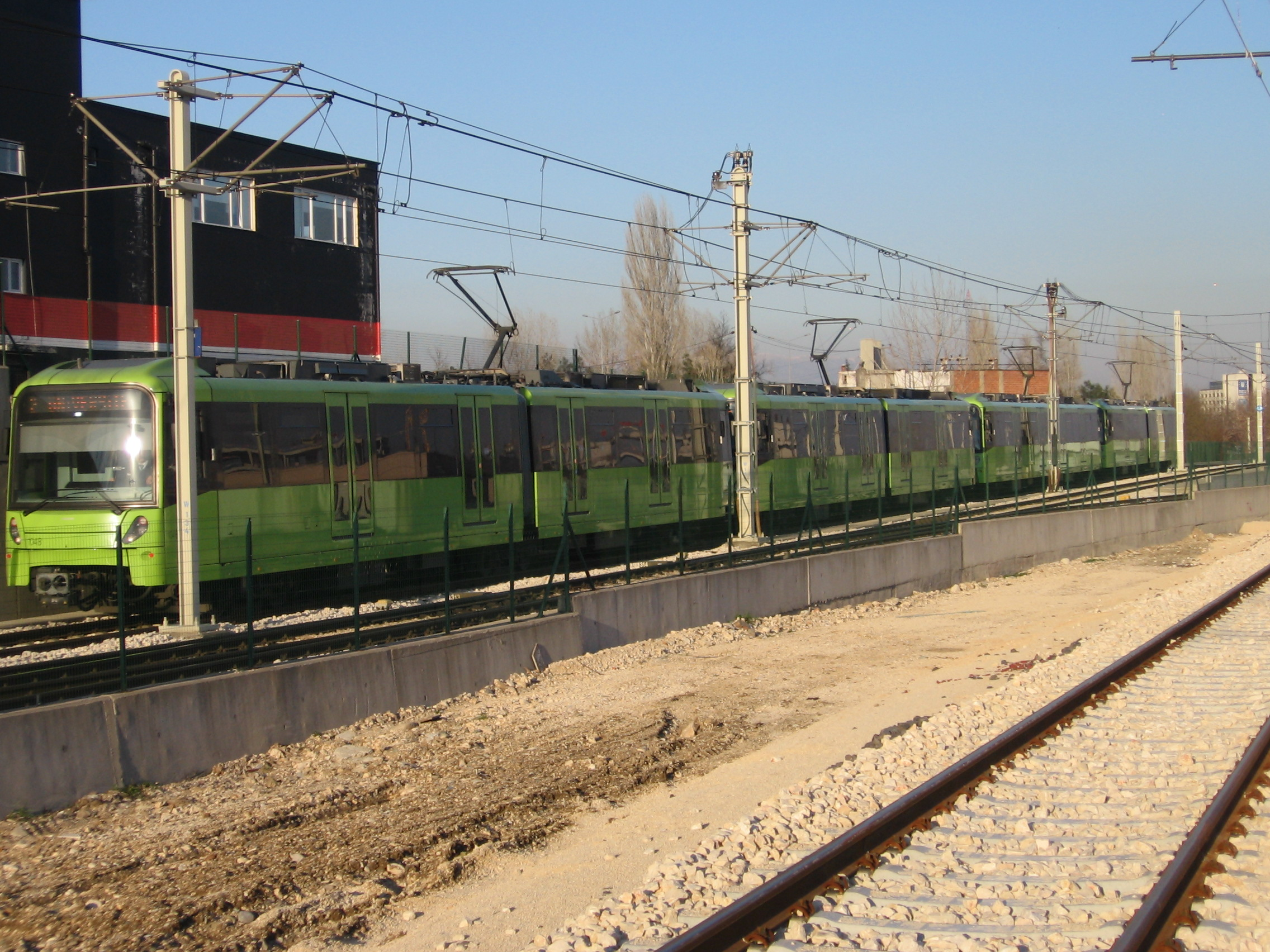 Bombardier Flexity Swift (B 2010) in Bursa/Turkey